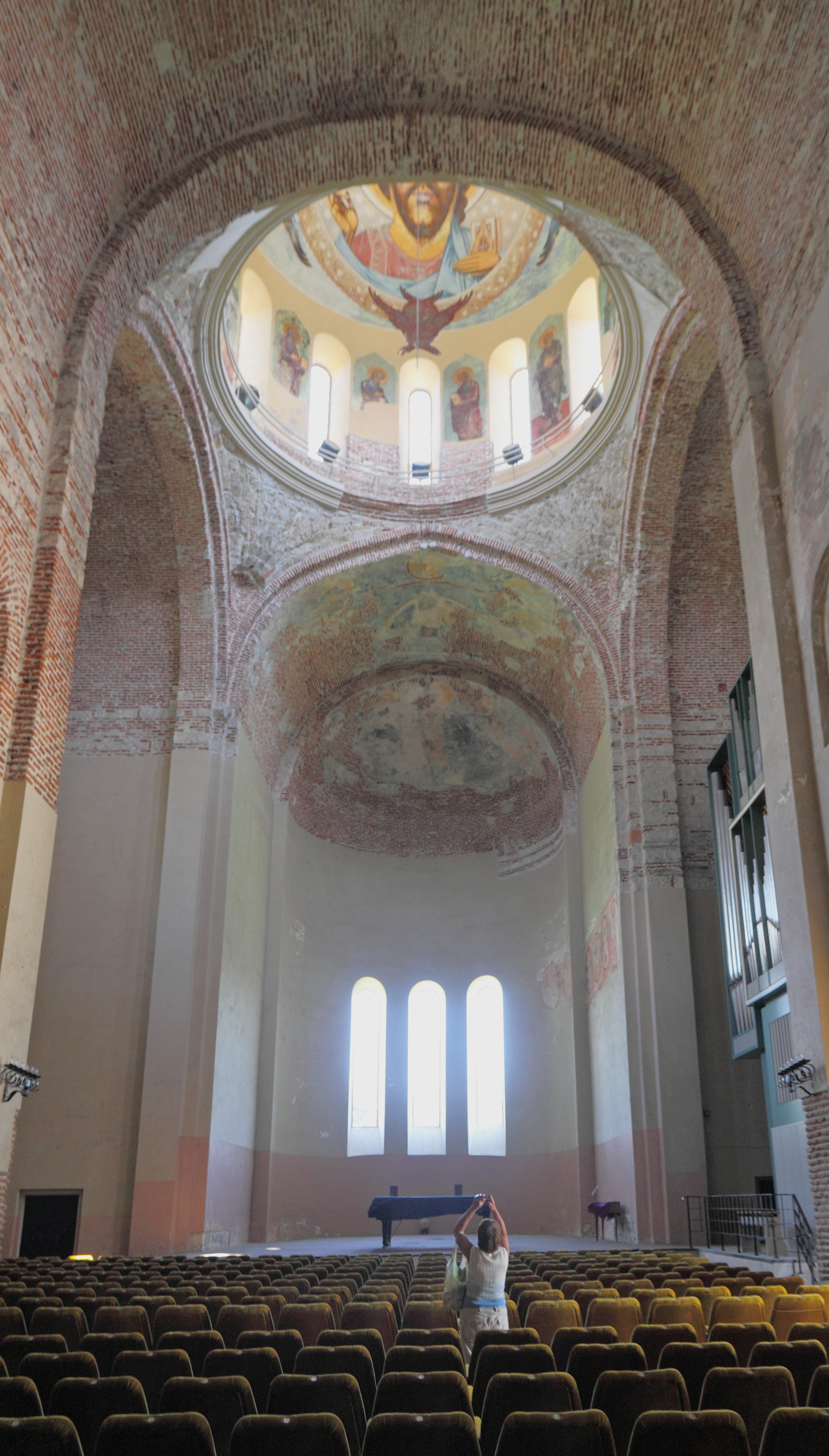 Interior of St. Andrew the Apostle Cathedral. Pitsunda, Gagra District, Abkhazia.